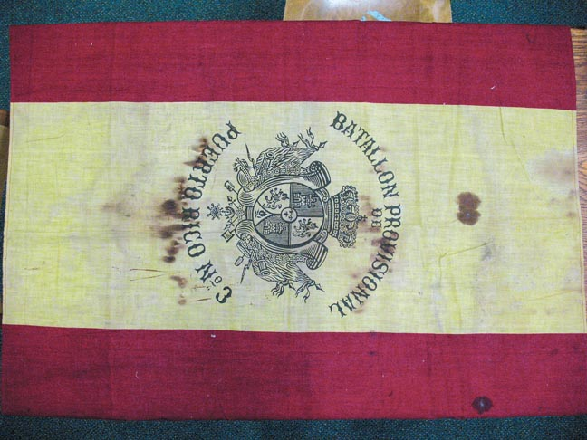 Bandera del Batallón Provisional No. 3. Puerto Rico, 1898